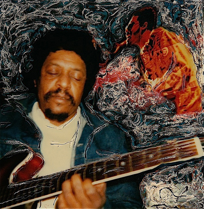 Portrait Polaroid sx 70 of Irio De Paula - Augusto De Luca photographer